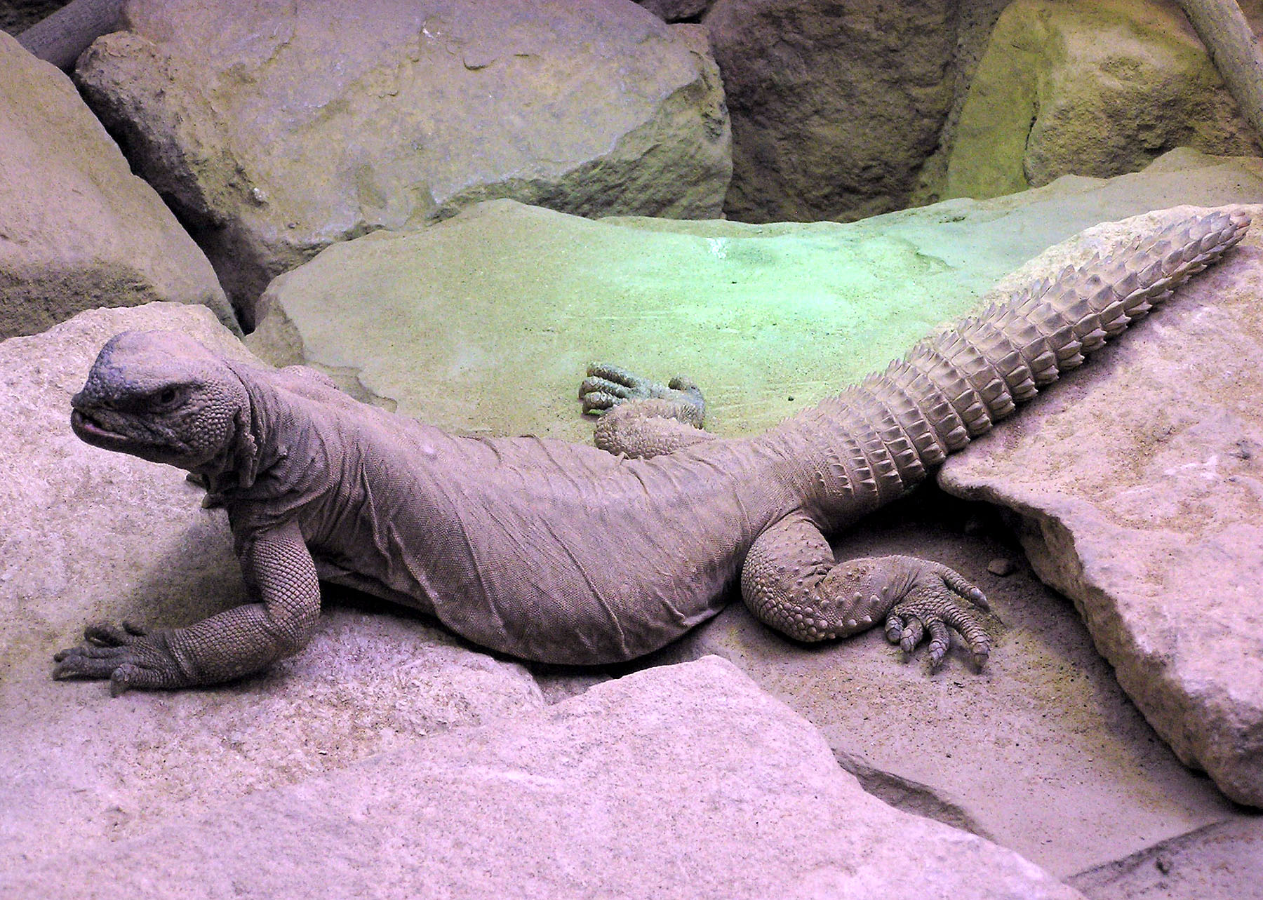 Egyptian spiny tail lizard Uromastyx aegyptius at Bristol Zoo, Bristol, England. Photographed by Adrian Pingstone in May 2005 and released to the public domain.